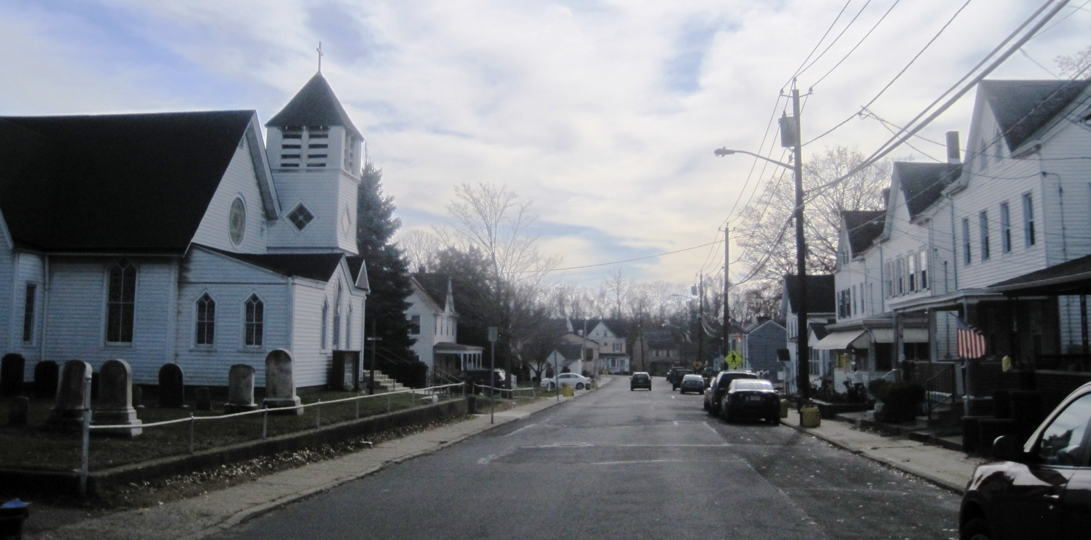 Photo of Groveville, New Jersey a census designated place within Hamilton Township, Mercer County. Photo taken along southbound Church Street (County Route 609) at the Groveville United Methodist Church.